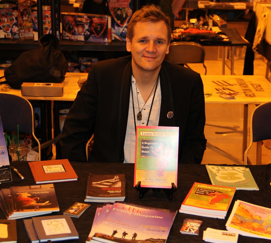 Lorin Morgan-Richards signing books in Cardiff, Wales